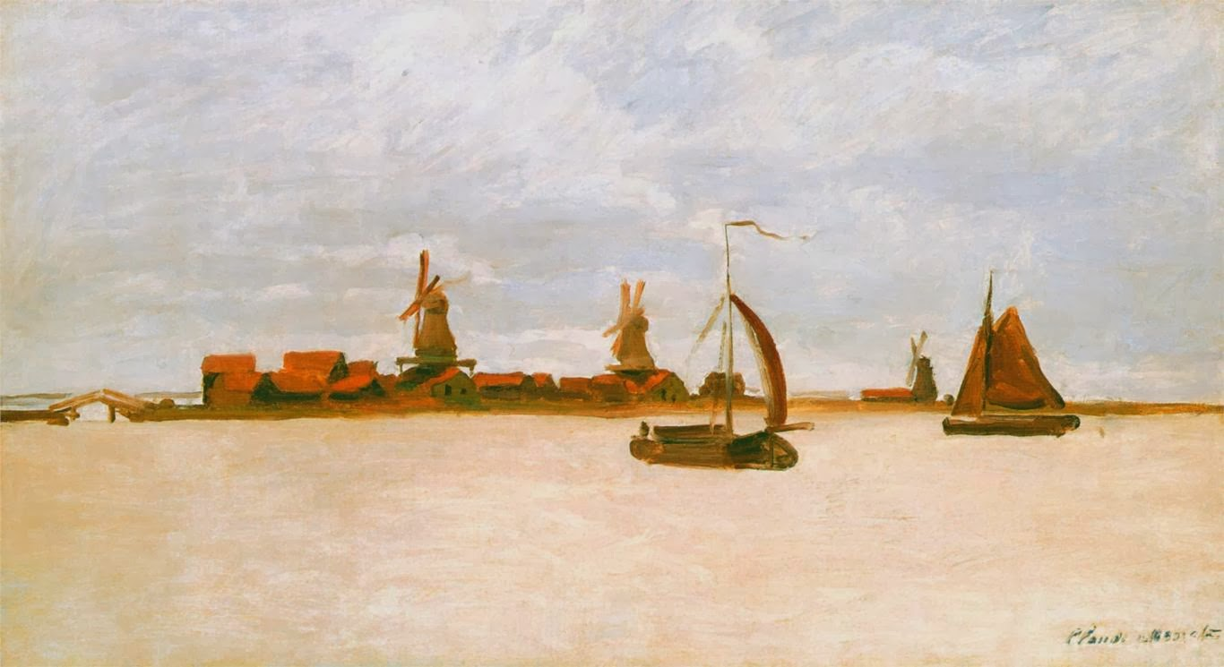 De Voorzaan bij Zaandam